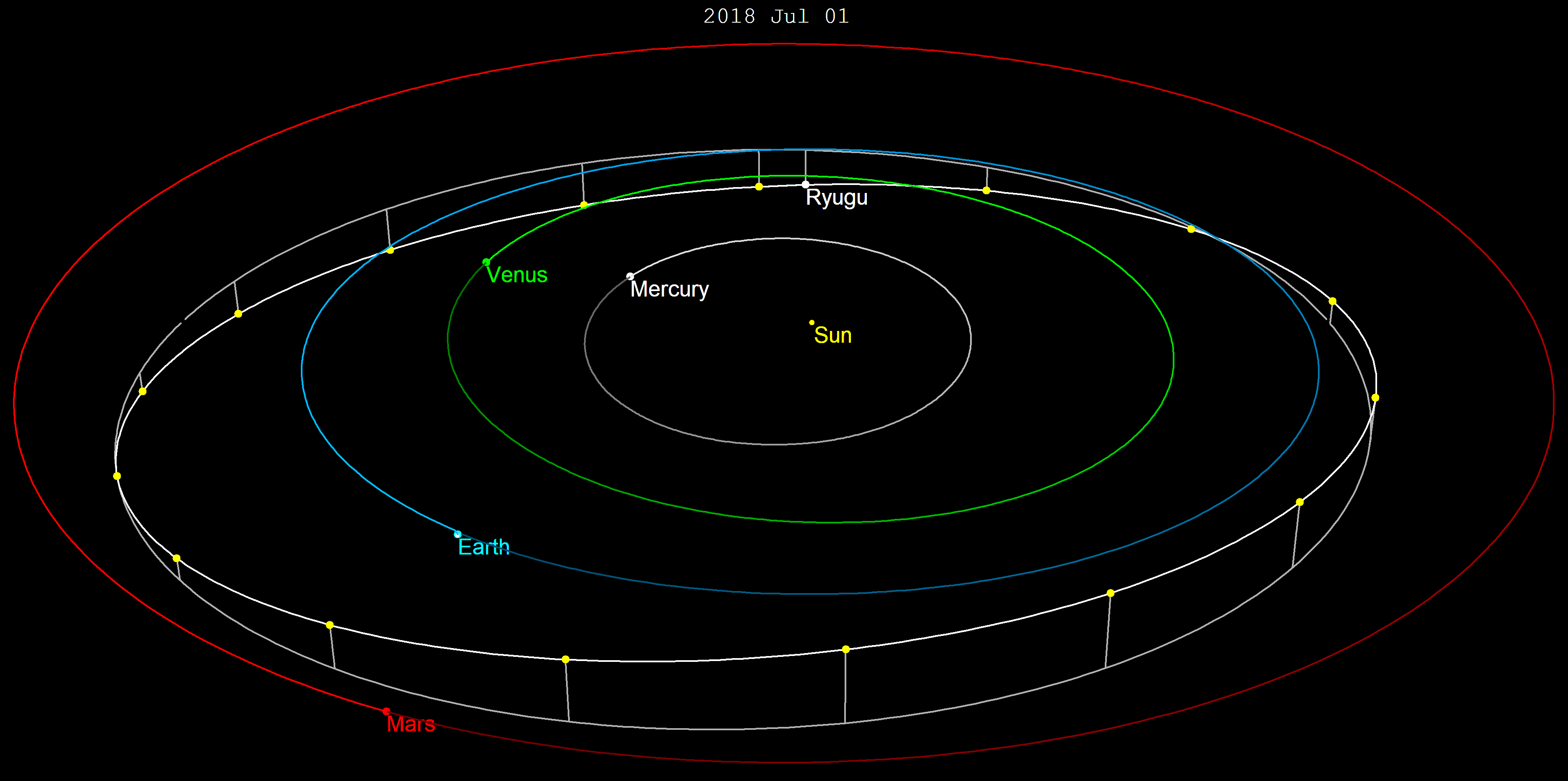 en:162173 Ryugu orbit